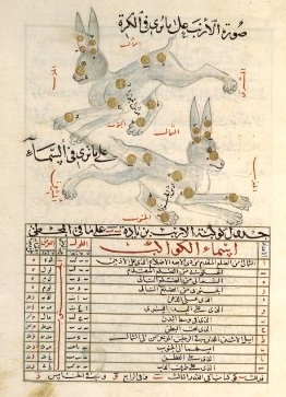 Hare constellation in the astronomy treaty of the Persian scientist Abd al-Rahman al-Sufi